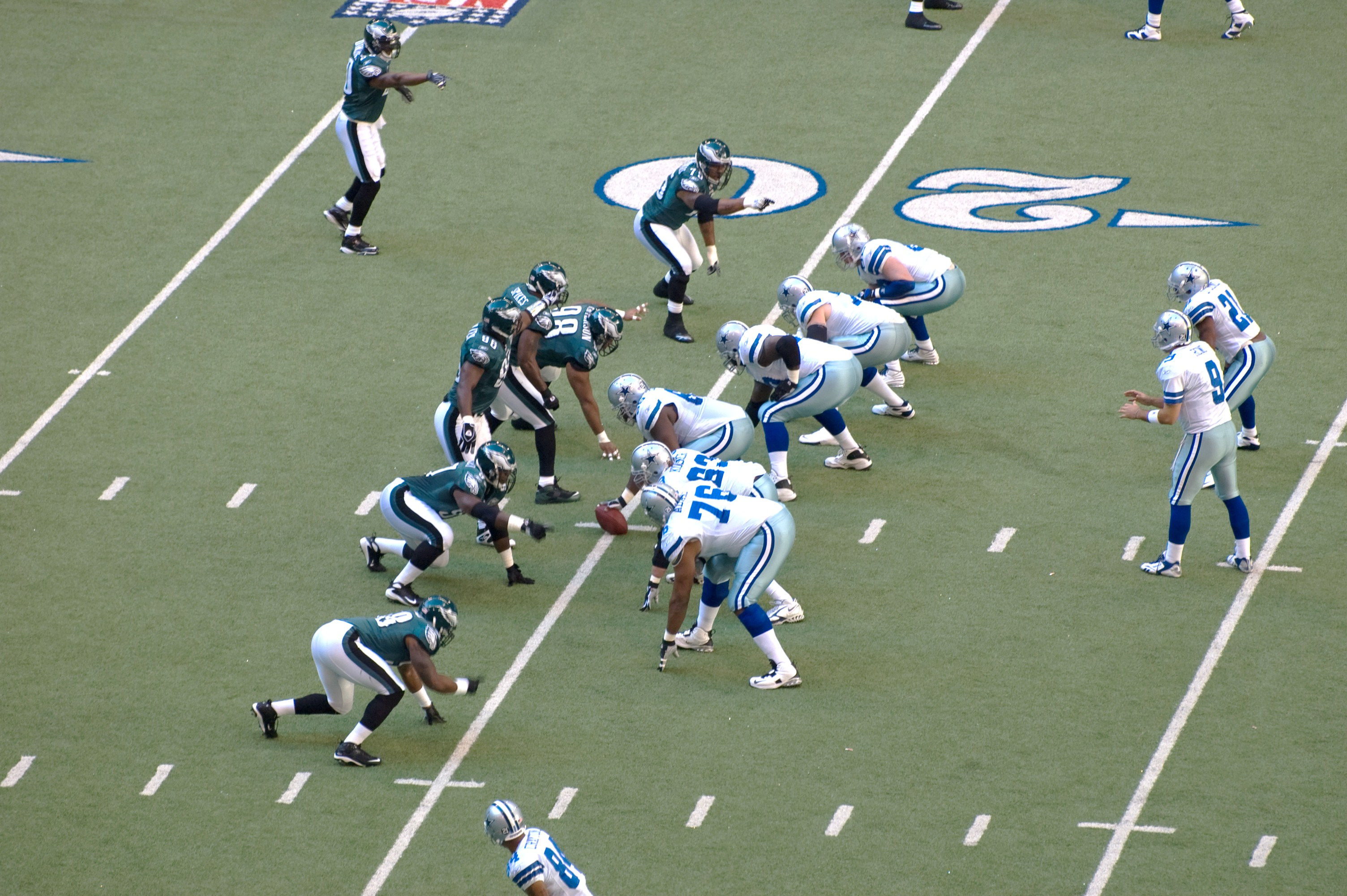 Darren Howard and Tra Thomas point during an Eagles defensive formation against the Dallas Cowboys